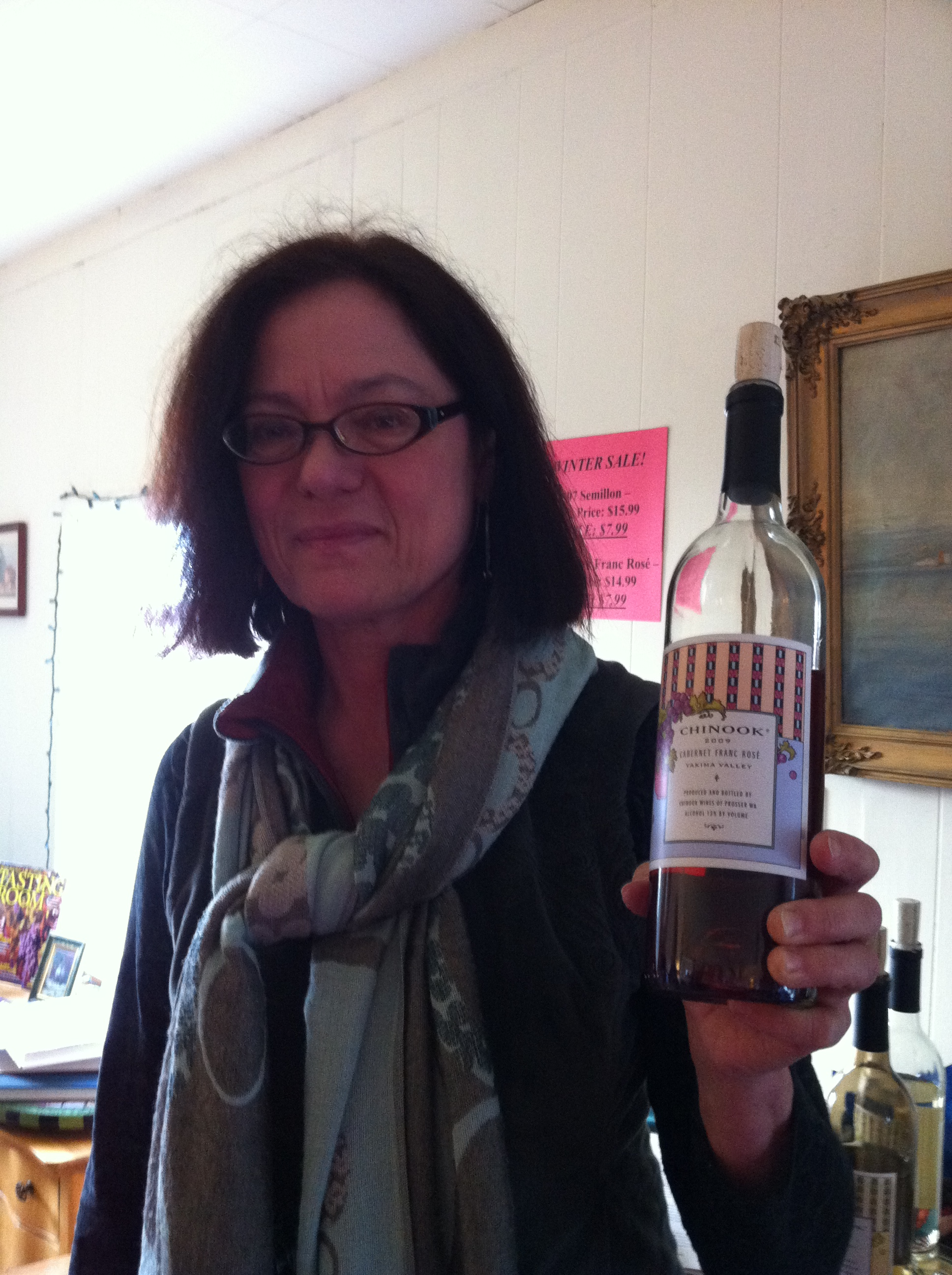 Washington state winemaker and pioneer Kay Simon of Chinook wines.